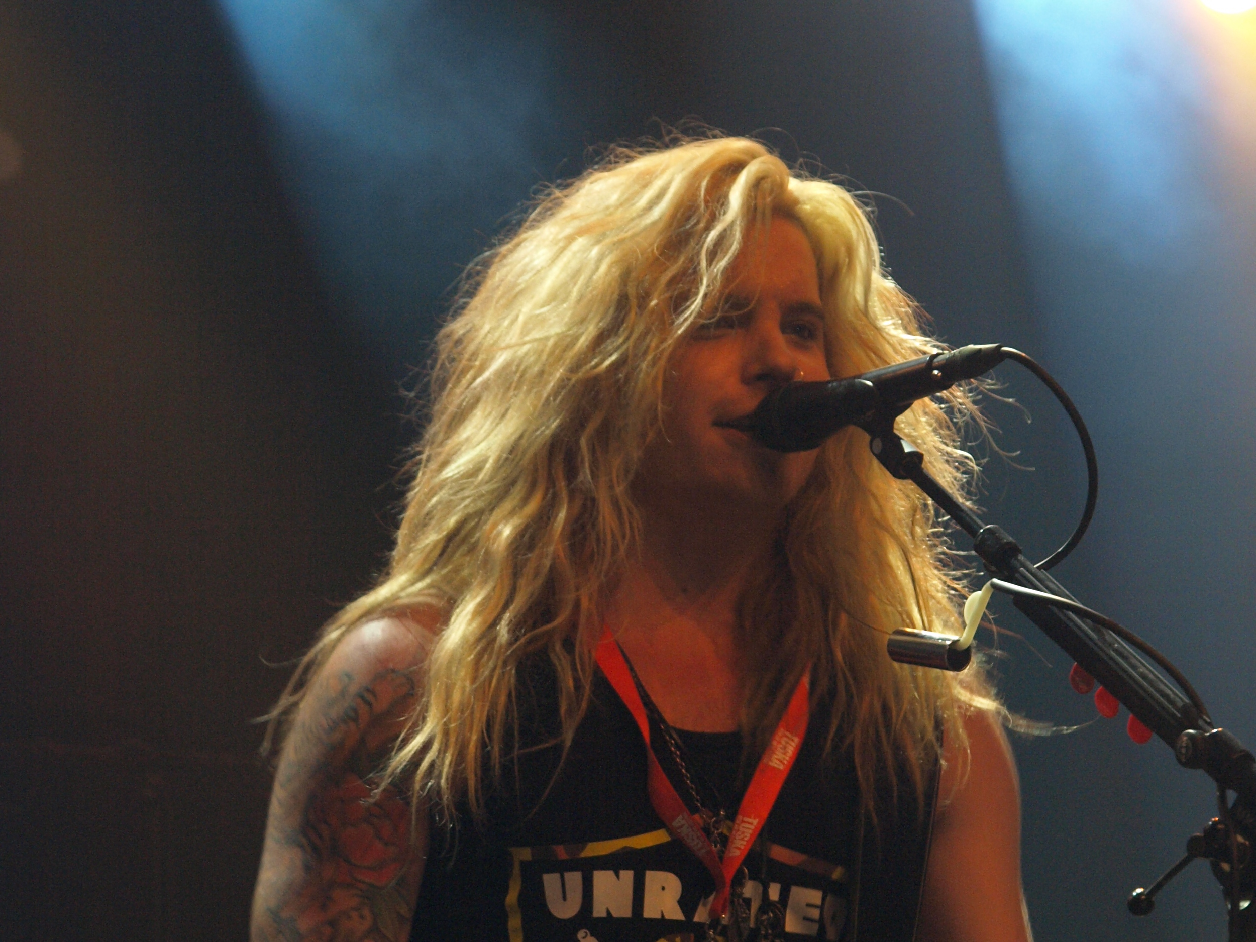 Finnish band Santa Cruz at Tuska Open Air 2013